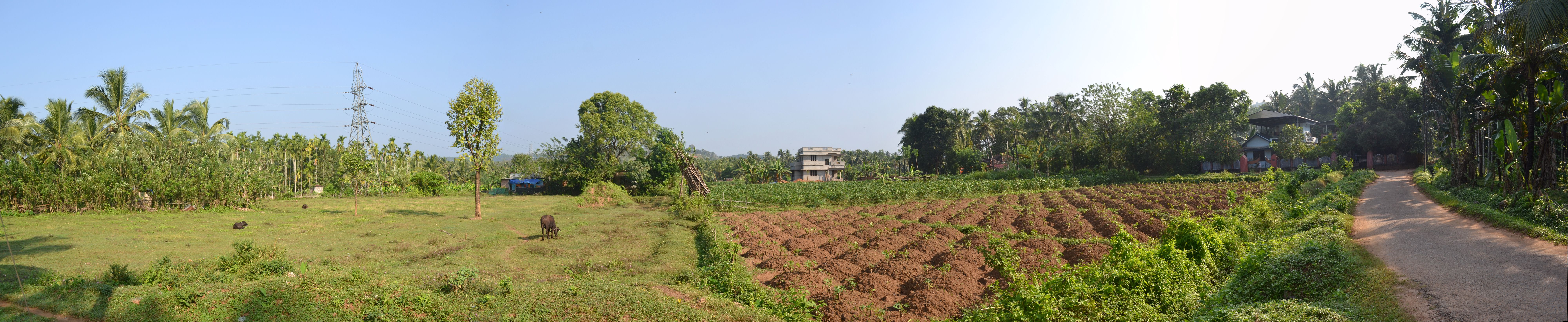 Thanikkudam, a village in Thrissur District , Kerala in India, presents a diverse set of landscape views. The one here shows a Tapioca (Cassava) field among the (now converted) paddy fileds and banana farms.